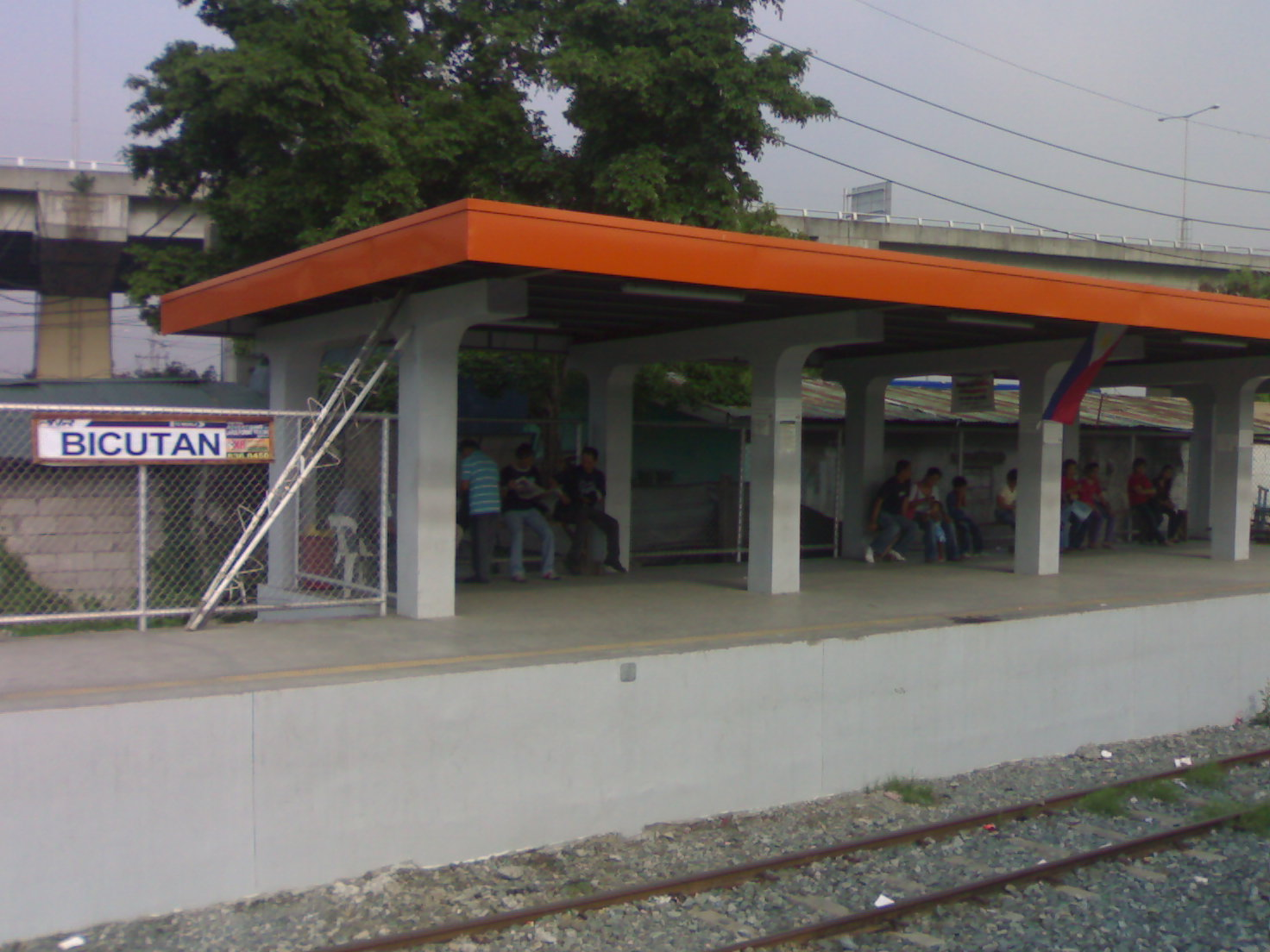 PNR Bicutan station platform (northbound)